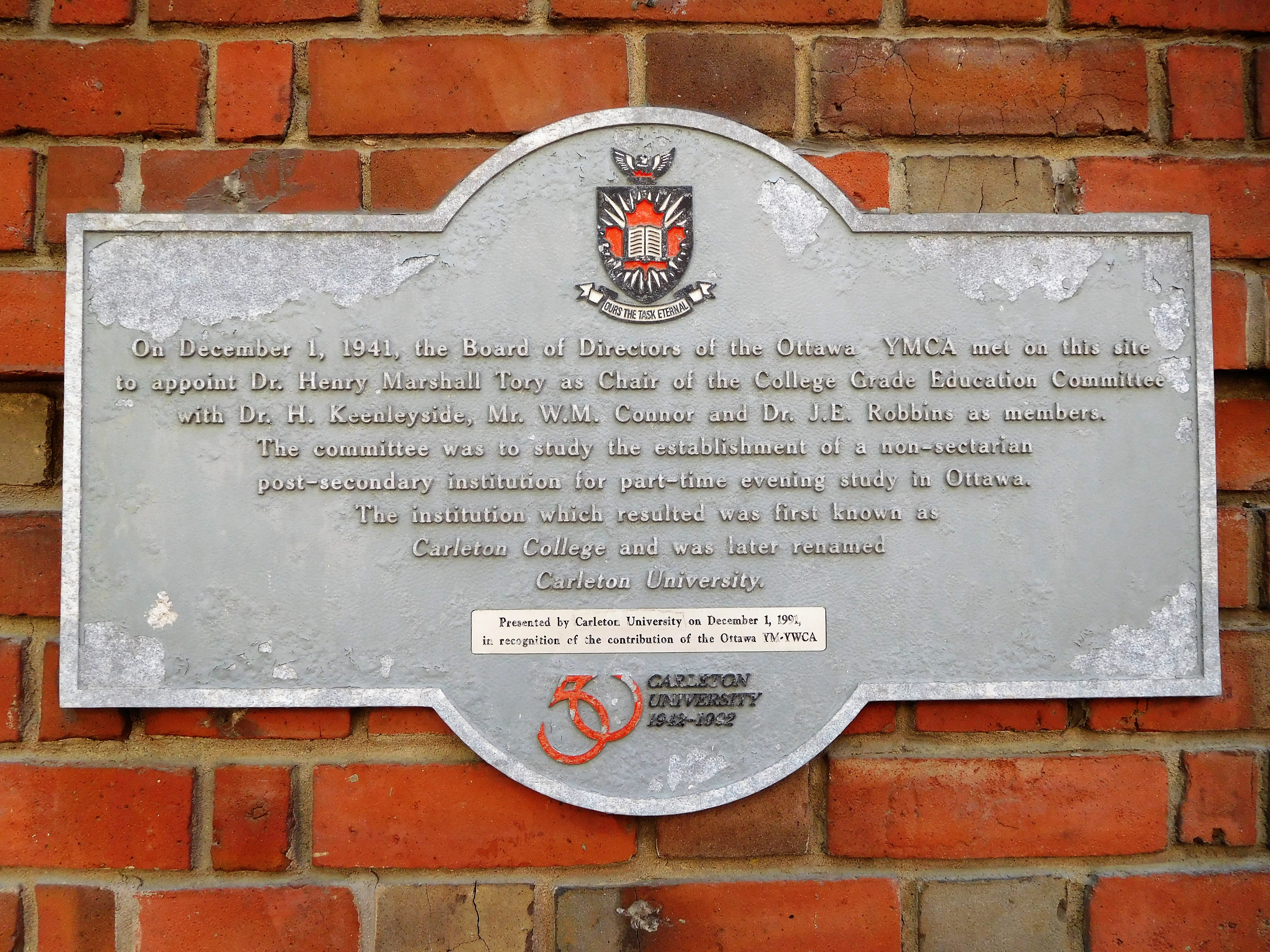 Engraved at 123 Metcalfe Street, Ottawa : "Ours the Task Eternal" ; "On December 1, 1941, the Board of Directors of the Ottawa YMCA met on this site to appoint Dr. Henry Marshall Tory as Chair of the College Grade Education Committee with Dr. Keenleyside, Mr. W.M. Connor and Dr. J.E. Robbins as members. The committee was to study the establishment of a non-sectarian post-secondary institution for part-time evening study in Ottawa. The institution which resulted was first known as Carleton College and was later renamed Carleton University." ; "Presented by Carleton University on December 1, 1991, in recognition of the contribution of the Ottawa YM-YWCA" ; "50 Carleton University 1942-1992"